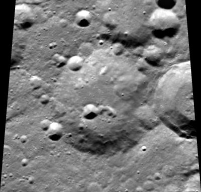 Lindblad lunar crater - Clementine image